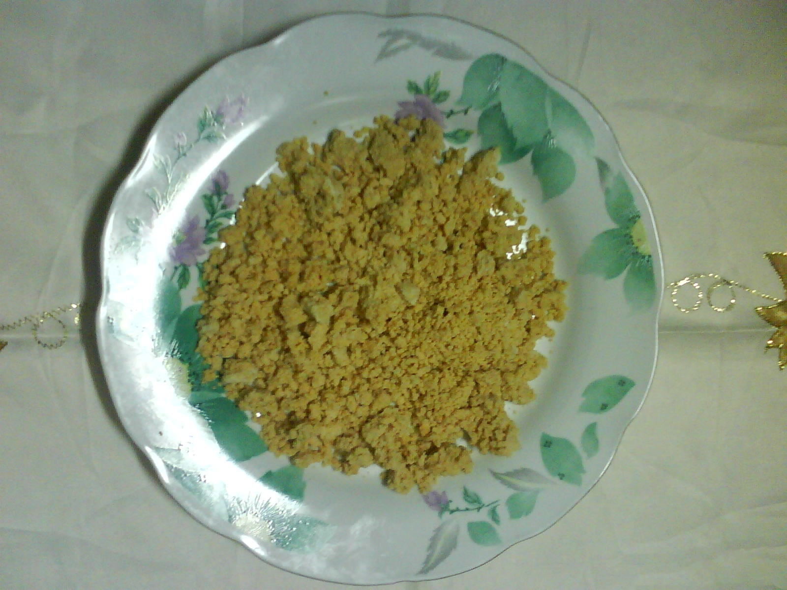 Qurut